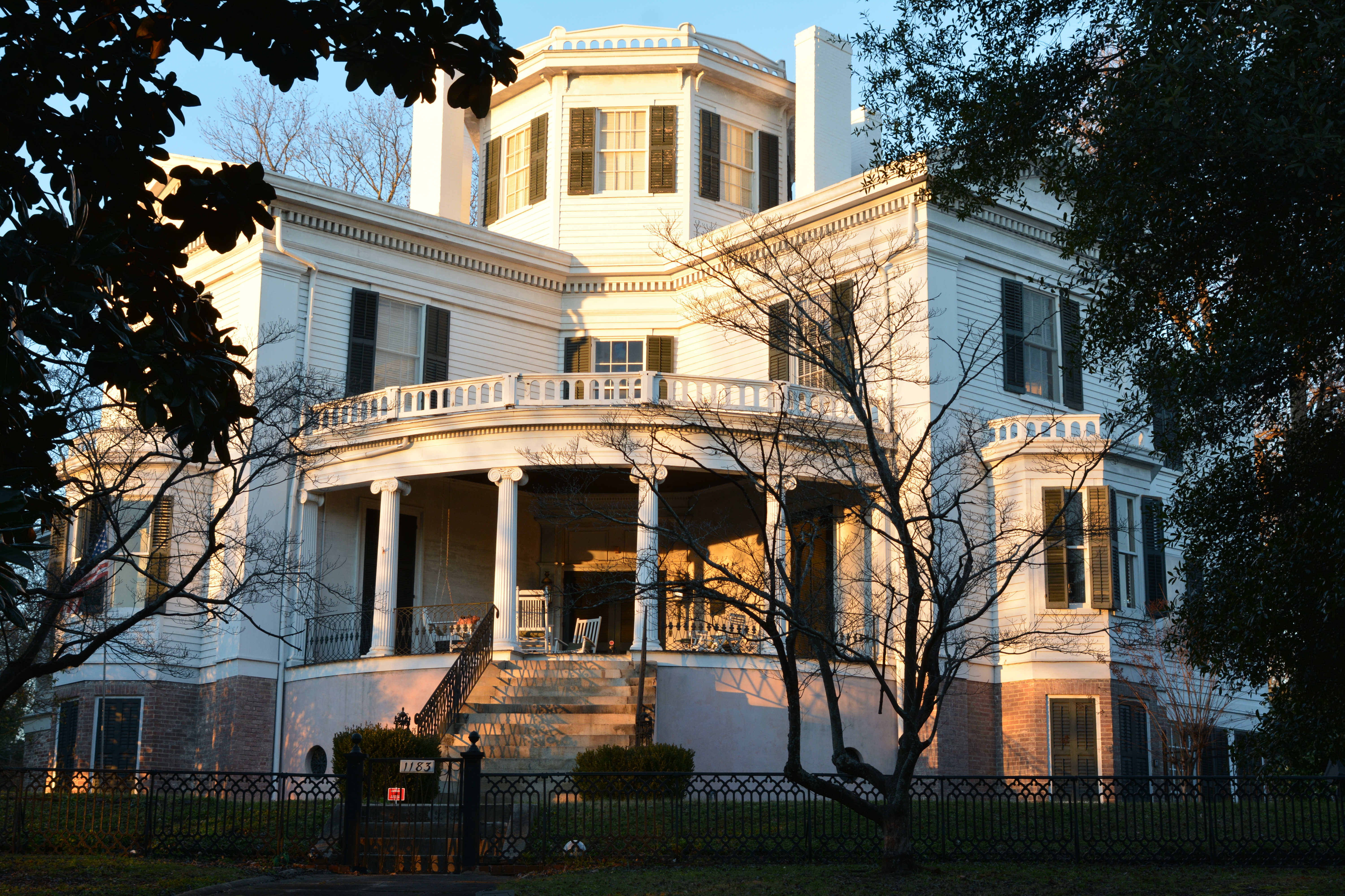 House on College St., Macon Historic District, Macon, Georgia, U.S. The Raines-Carmichael House, College Street, Macon, Georgia, U.S.